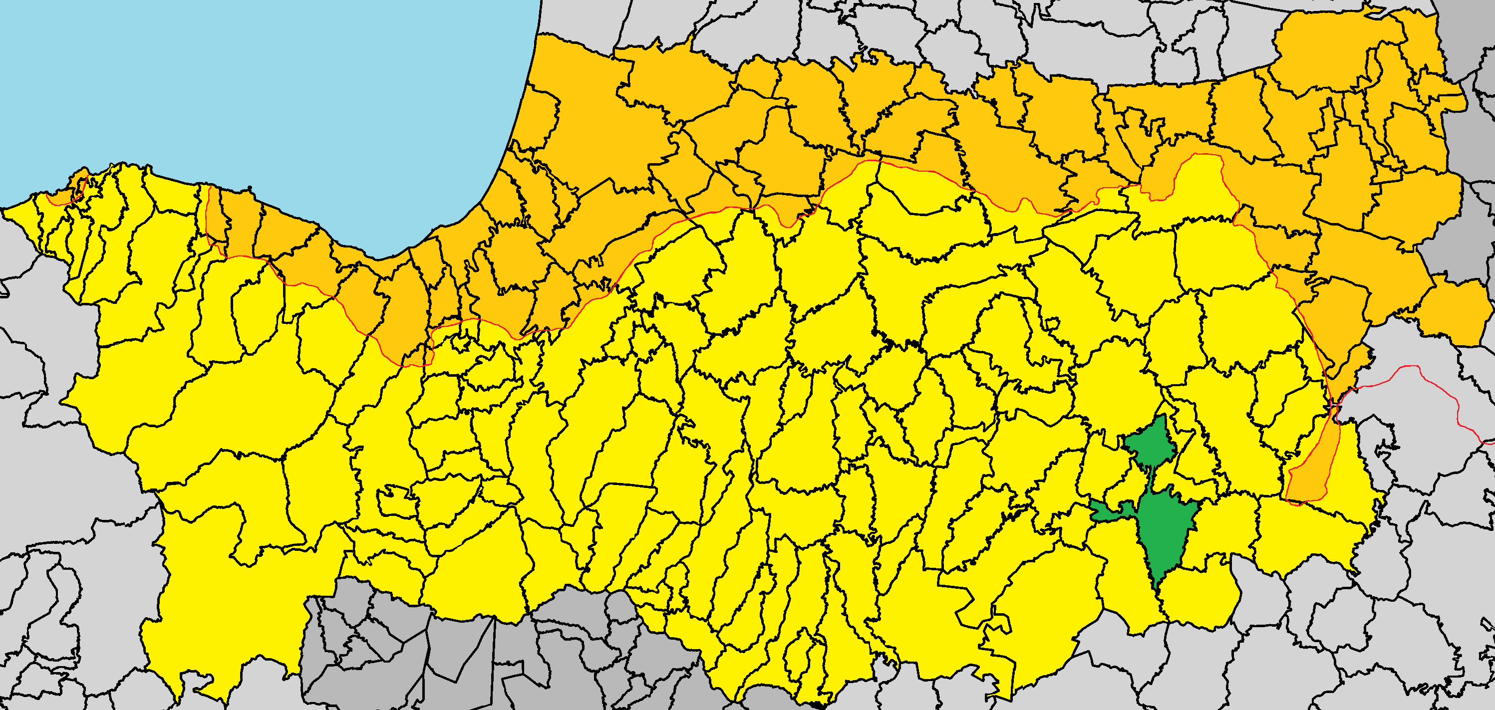 Agia Varvara in Nicosia District.